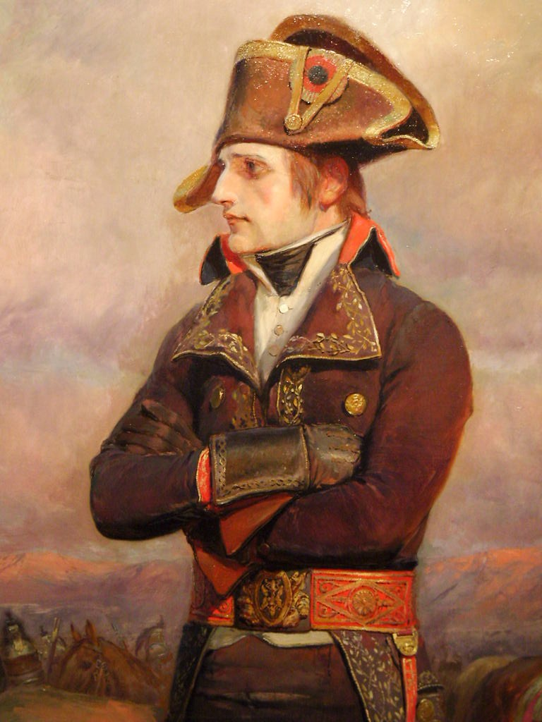 Genera Bonaparte in Italy